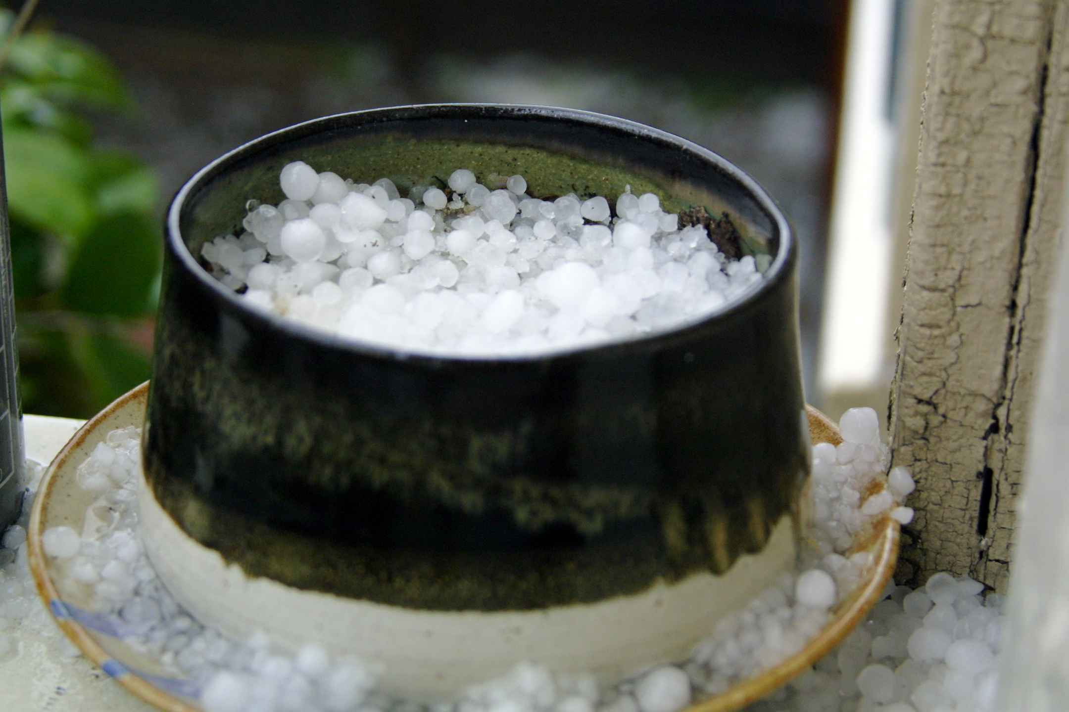 Hail storm 6 of 6.IMG_0028.JPG